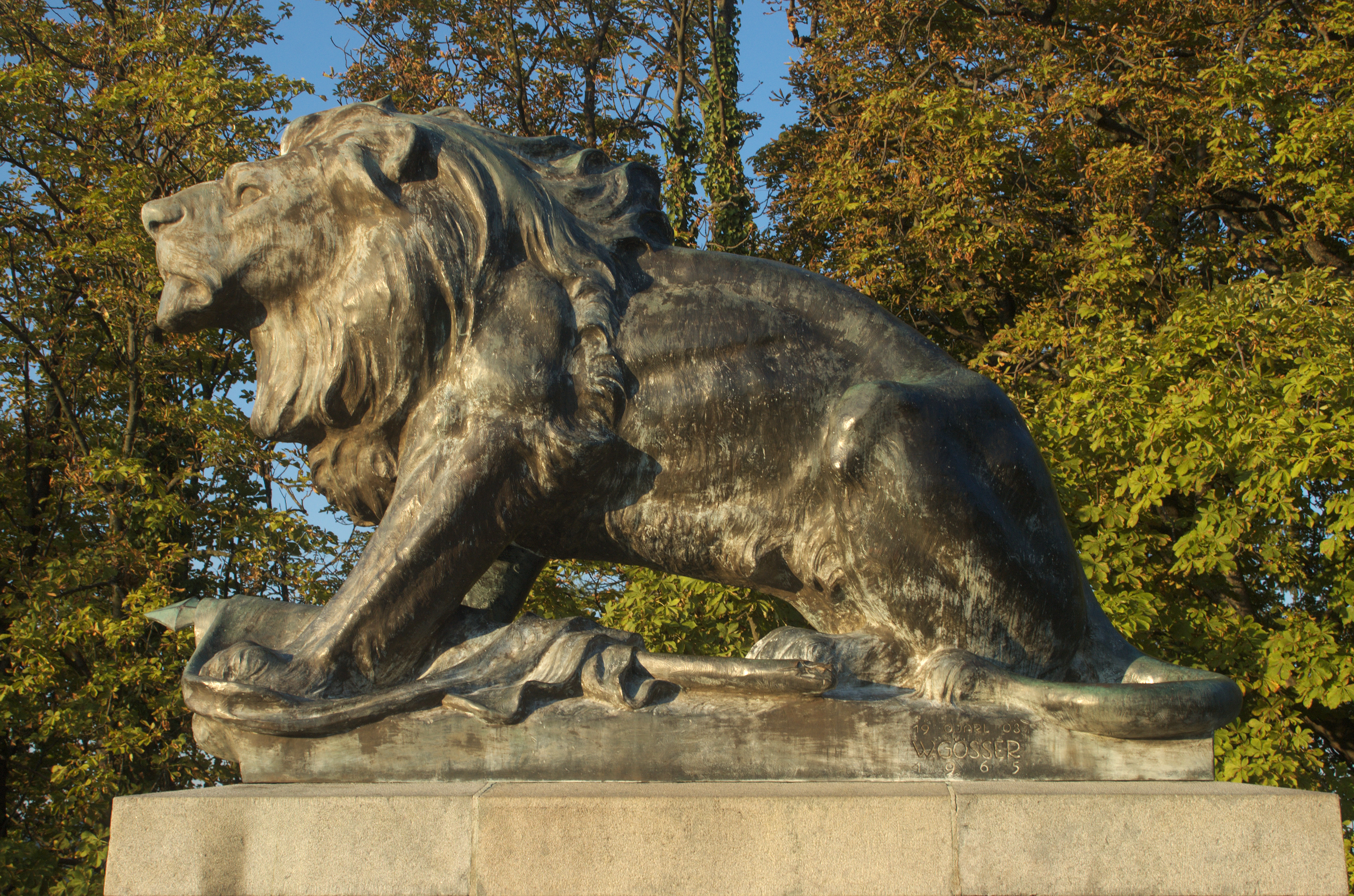 Hackher-Löwe in Graz, Schlossberg Graz